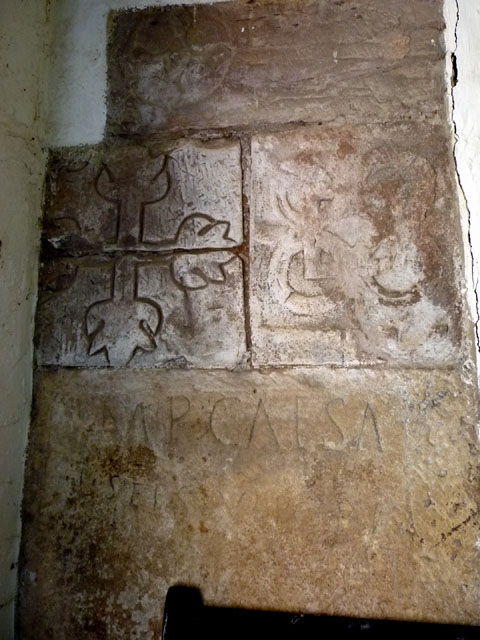 Roman inscribed stones, St Michael's Church, Brough, near to Brough, Cumbria, Great Britain. Built into the west wall of the porch these stones originate from the nearby fort of Verteris Link